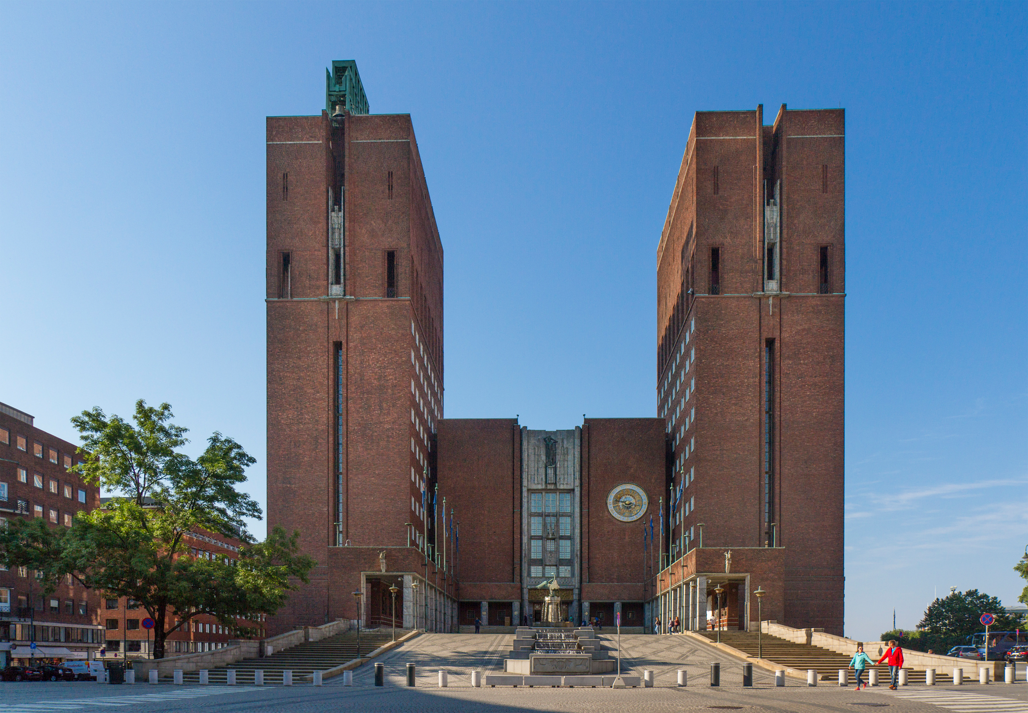 Oslo - city hall, main entrance